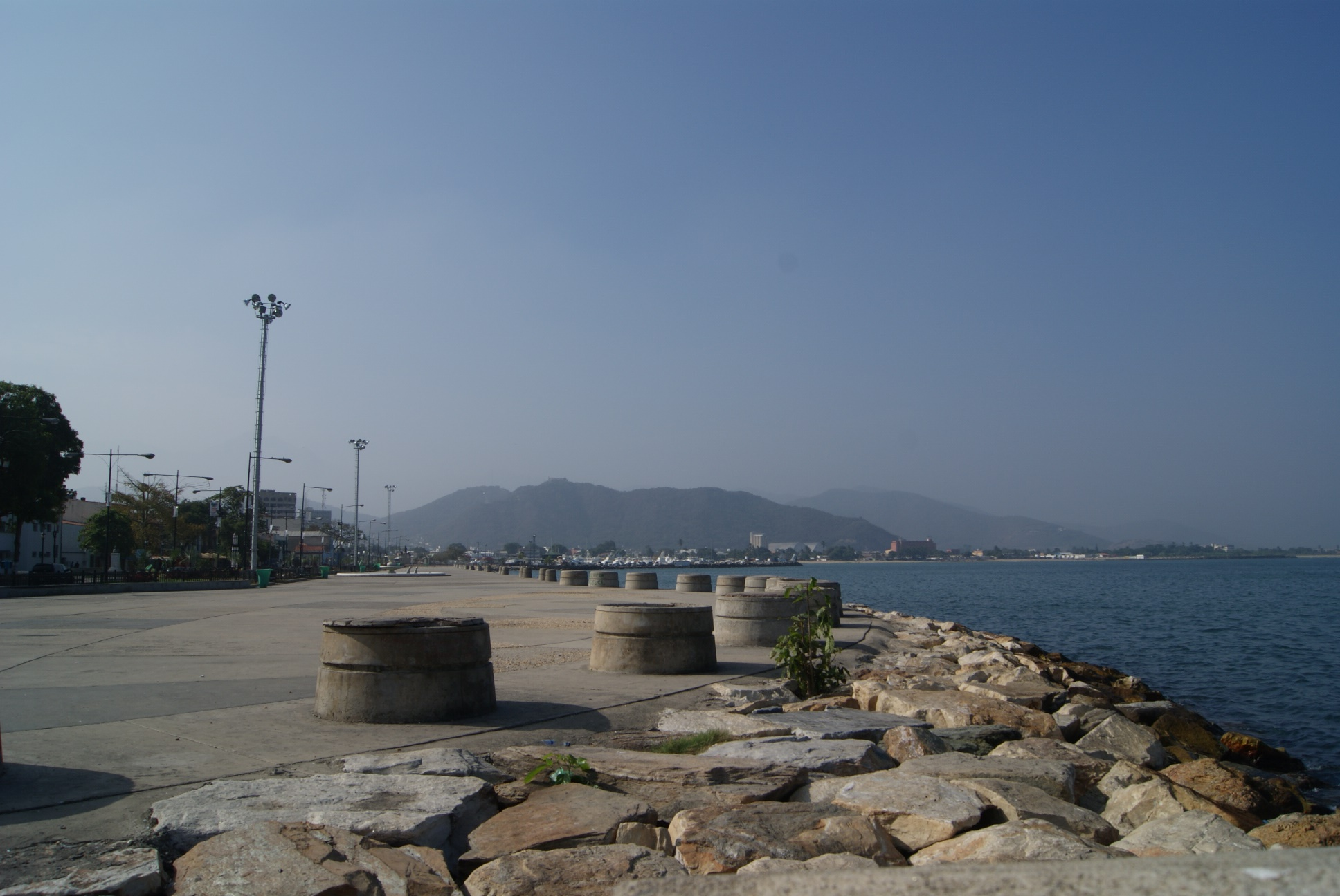 Puerto Cabello, Venezuela